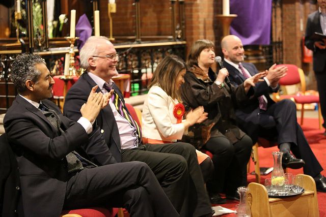 West Hampstead, London elections hustings 2015